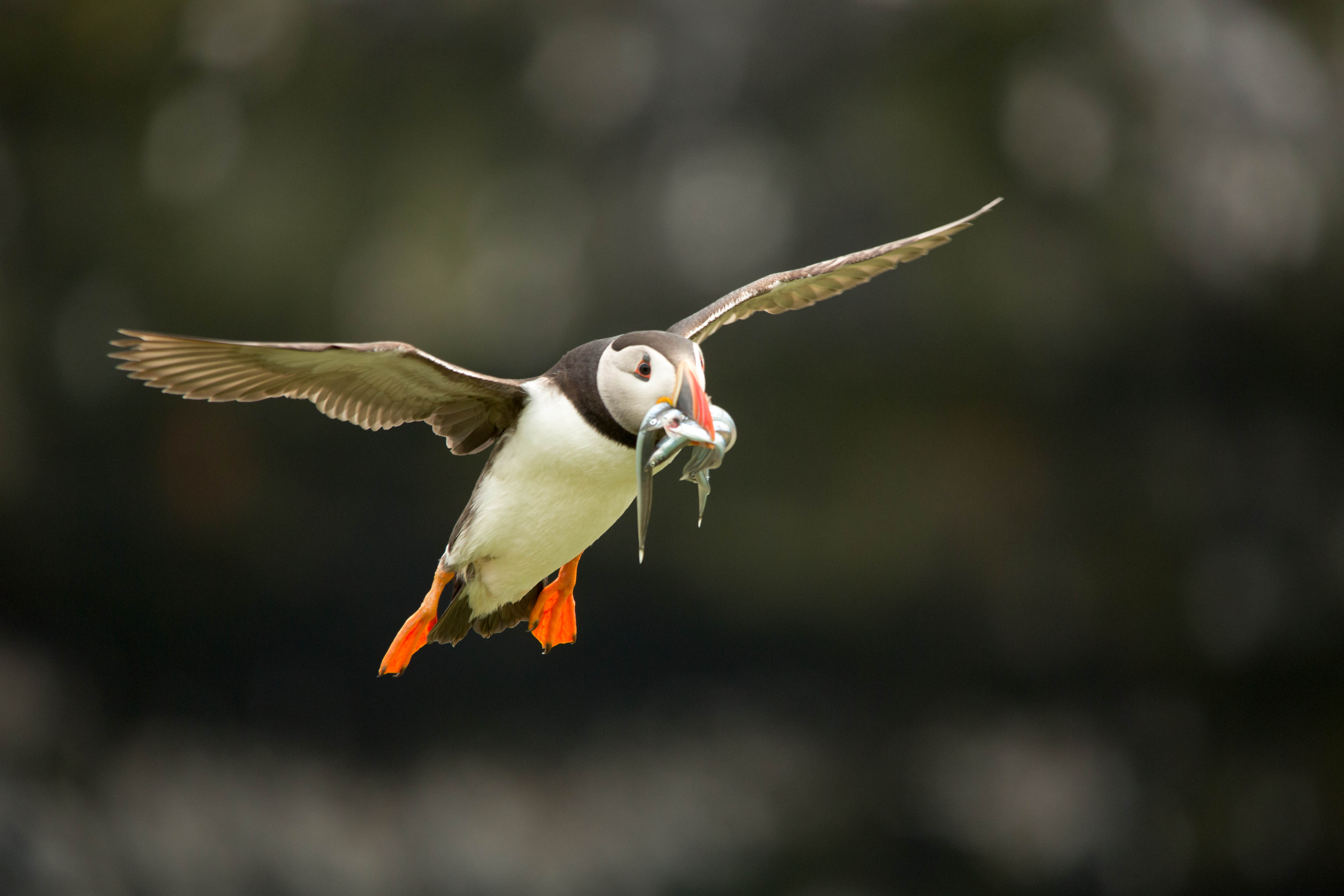 An Atlantic Puffin flying on Skomer Island, Wales, United Kingdom. It has caught some sand eels and it is carrying them back to its chick in the nest.